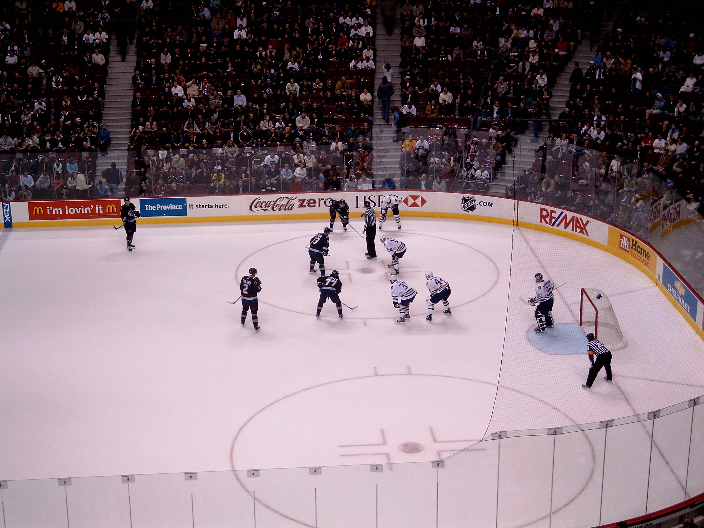 Face off in the NHL game between the Vancouver Canucks and the Edmonton Oilers at GM Place, Vancouver, British Columbia, Canada.